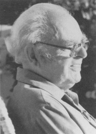 Bart Bok in his last year, 1983